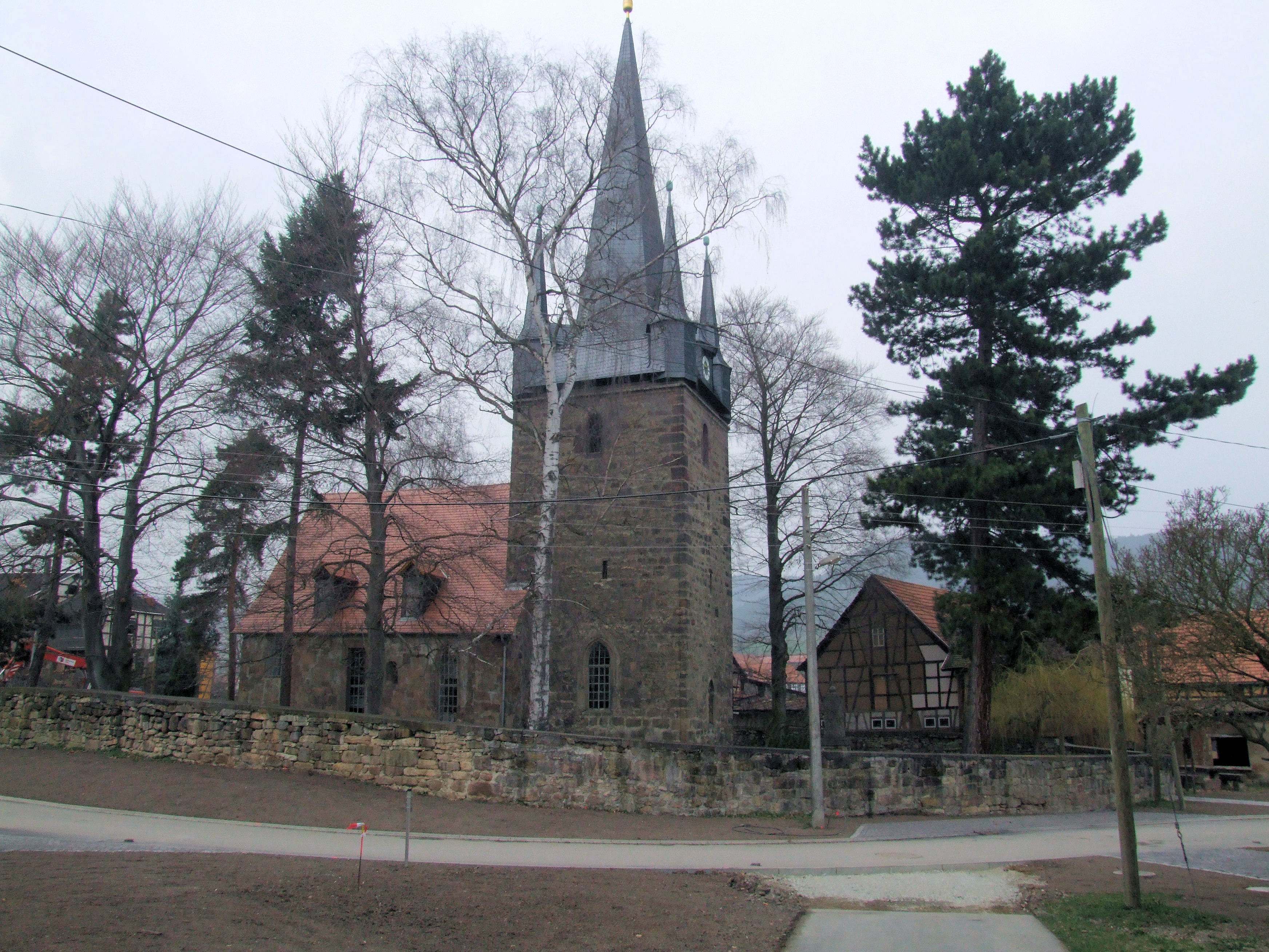 Church Engerda